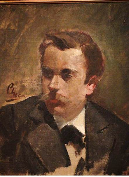 Portrait of Cecilo Plá (1885)